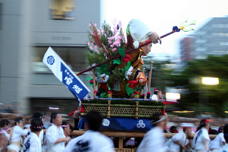 'Oiyama' event in Hakata-gion-yamakasa festival.